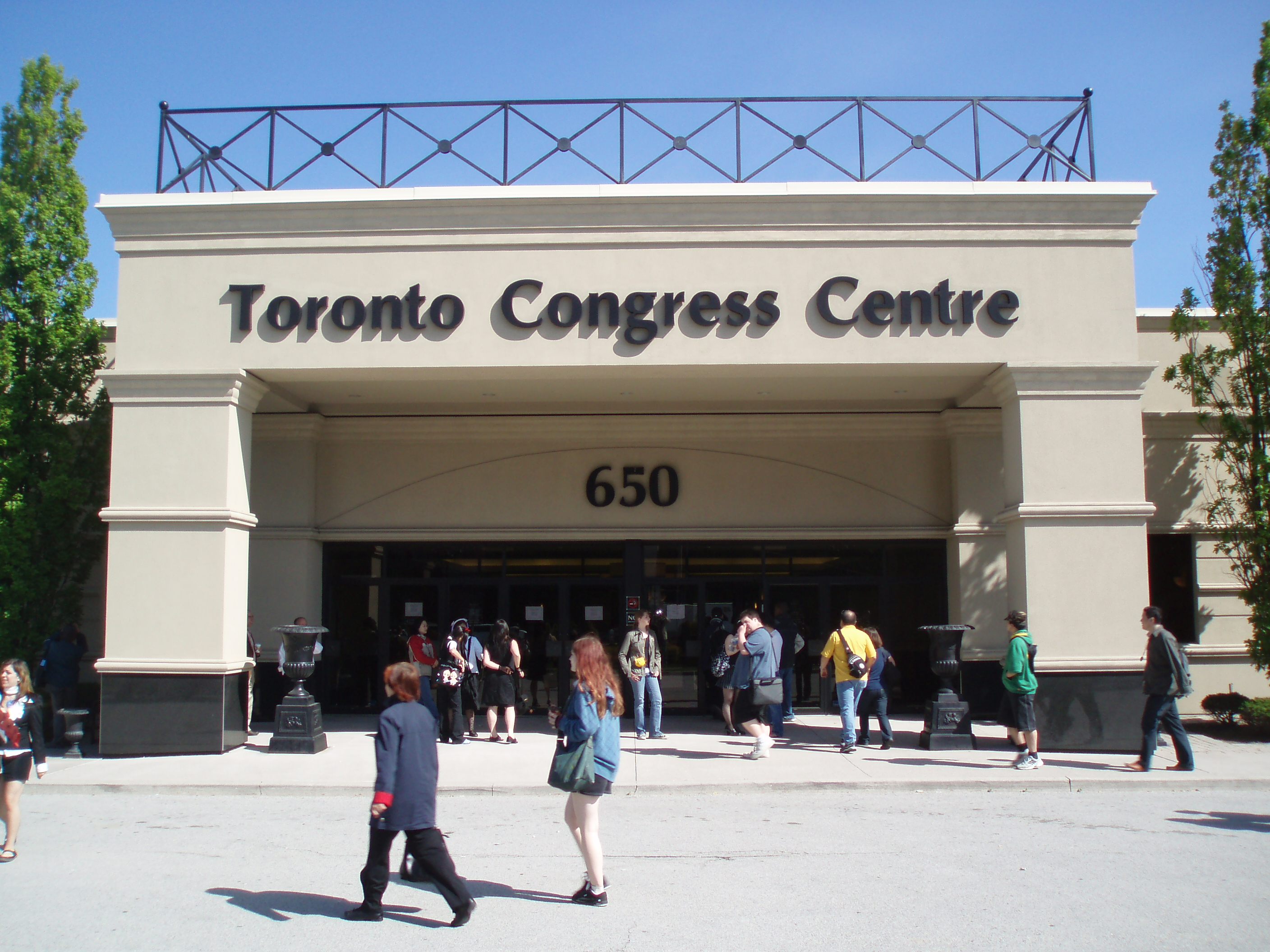 Toronto Congress Centre